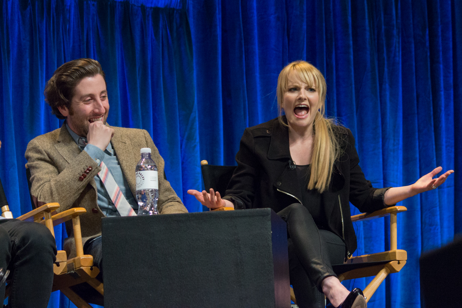 Simon Helberg and Melissa Rauch at PaleyFest 2013 for the TV show "Big Bang Theory"